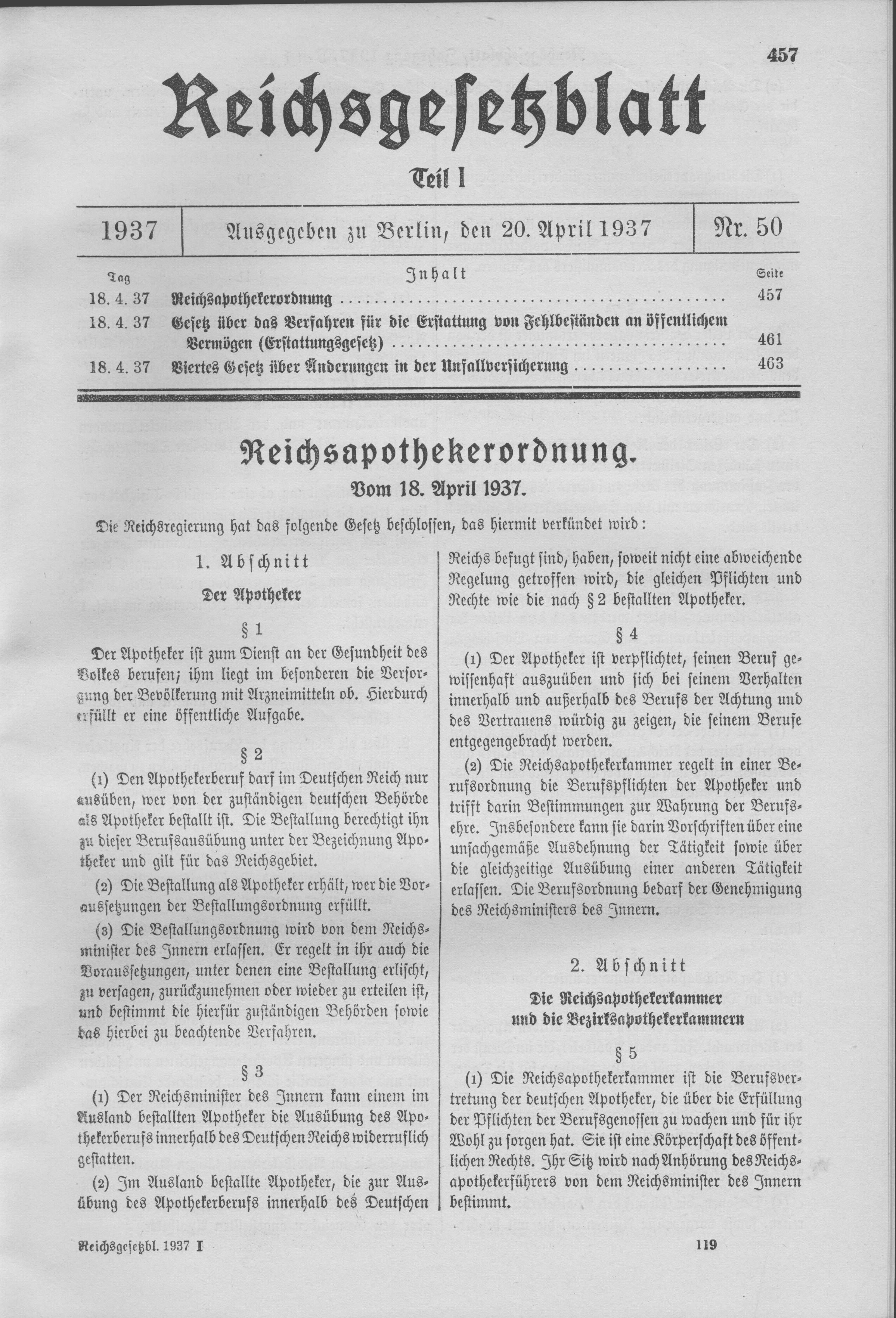 Scan from the Imperial Law Gazette of Germany, 1937, part 1